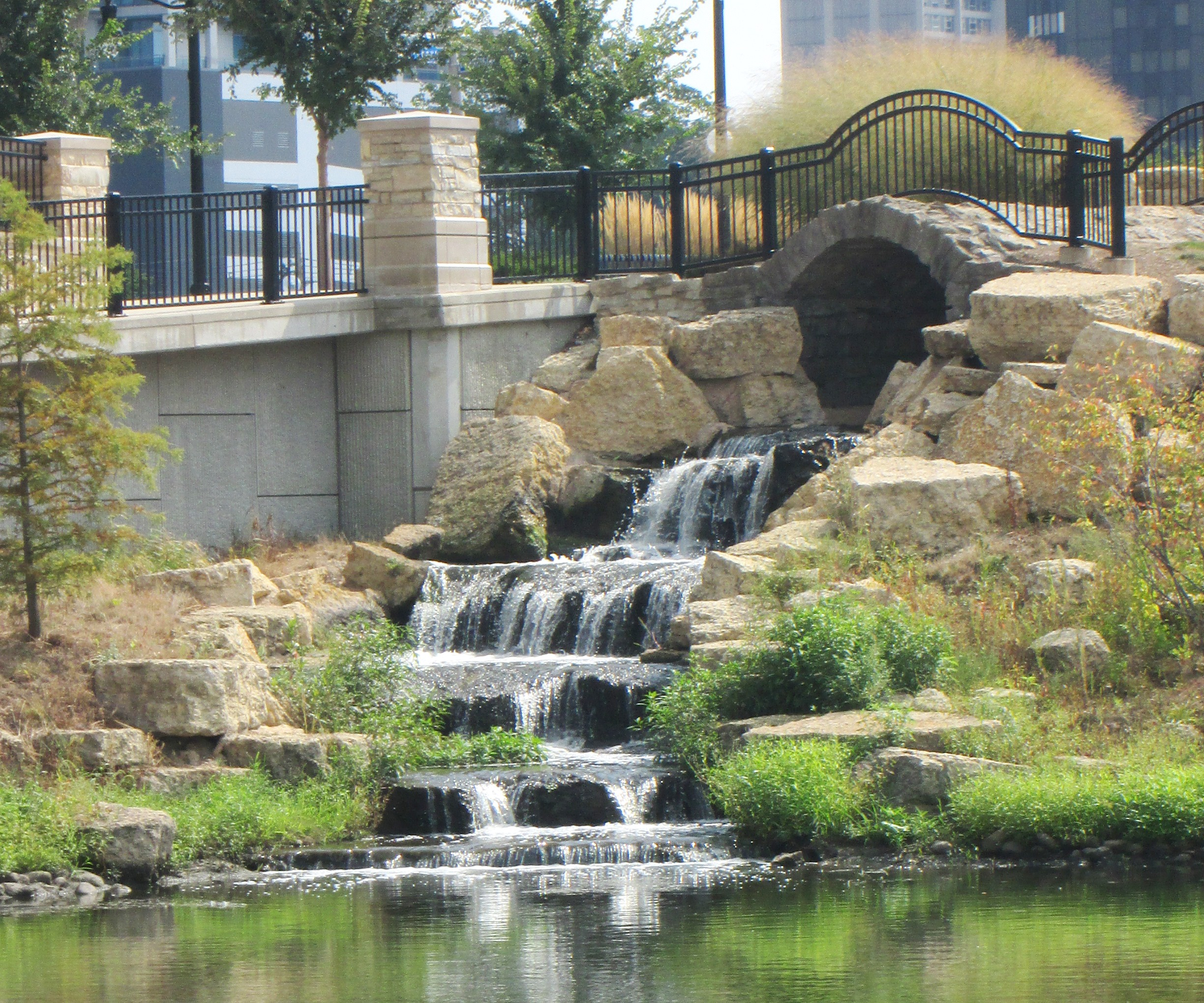 The Stone Arch Bridge, located near the intersection East Springfield Avenue and South Second Street in Champaign, Illinois was built in 1860. In c.2010, it was integrated into the design of the Boneyard Creek Second Street Basin, a flood control facility and recreational amenity which is located between First and Second Streets and Springfield and University Avenues.(SourceL [1])